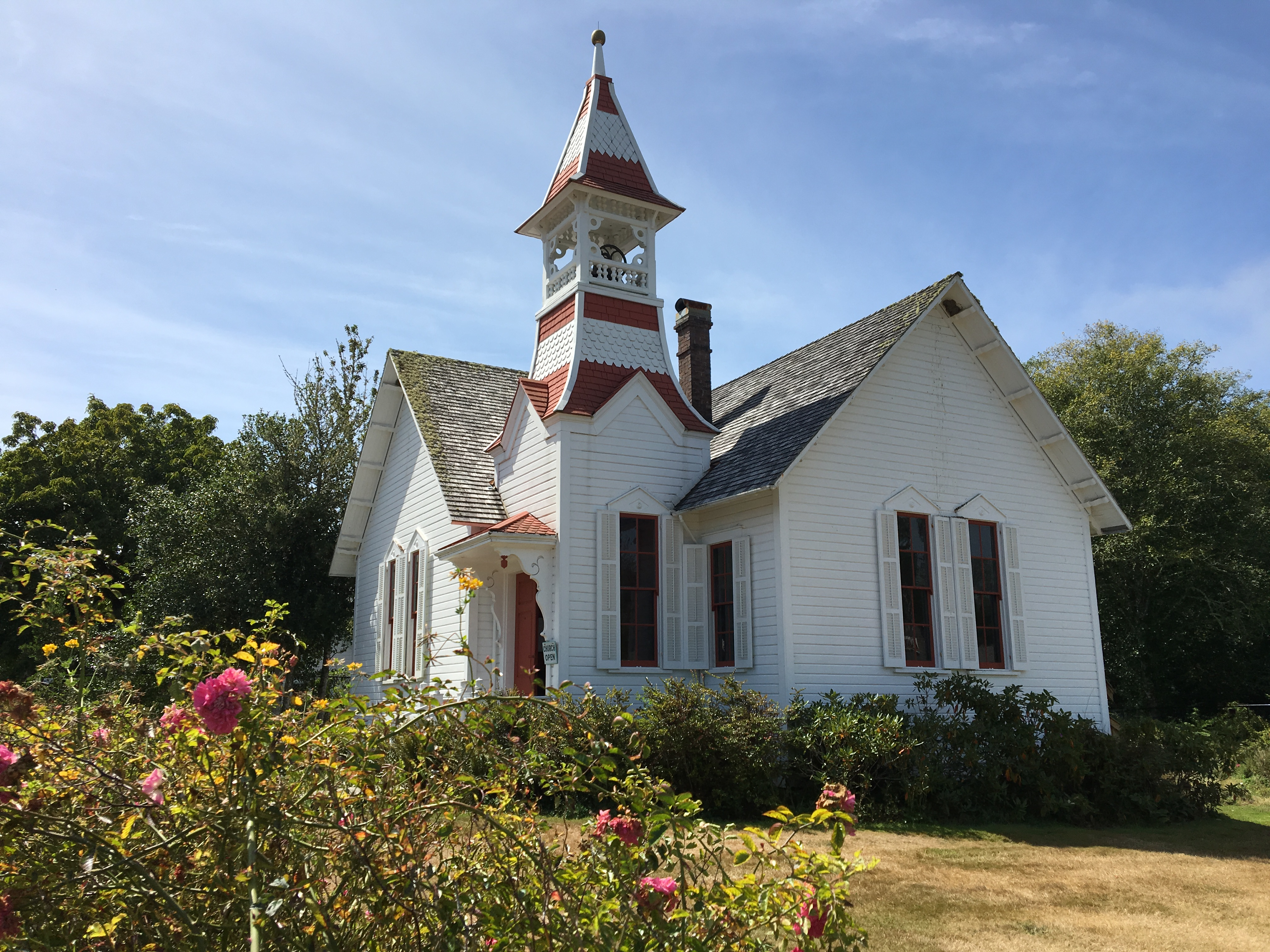 Oysterville Church, built in 1892, Oysterville, on Long Beach Peninsula facing Willapa Bay, Washington State